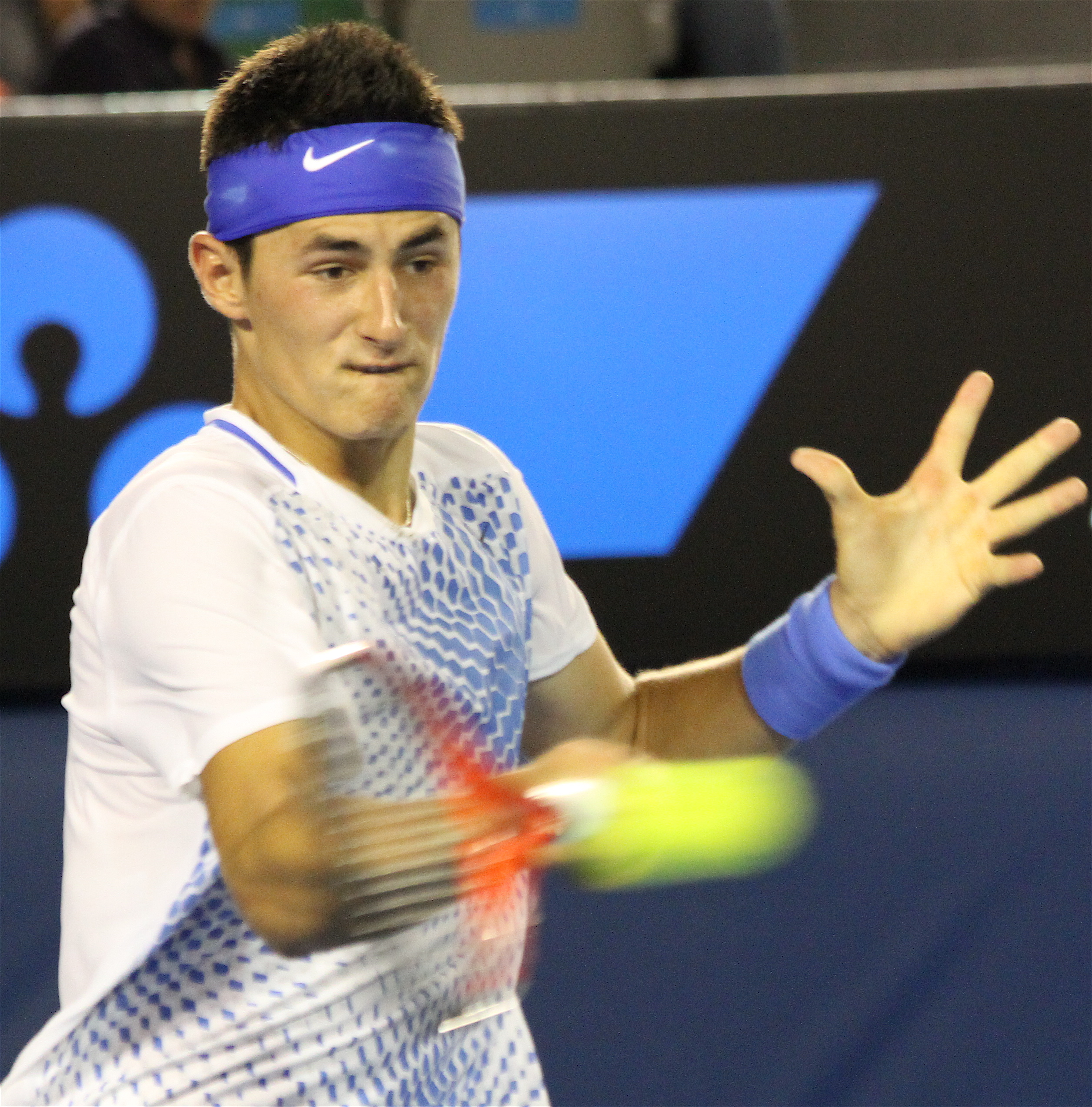 Bernard Tomic forehand against Rafael Nadal